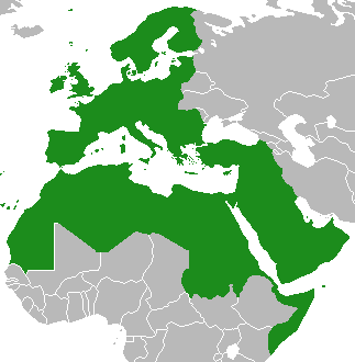 "Eurabia" map of combined European Union current, former (UK) & prospective members with Muslim-dominated Northern African and Middle Eastern countries (mainly Arab League members and observer states). National boundaries erased (because supposed Eurabia conspiracy is transnational), Israel & Palestinian territories coloured in (because destruction of Israel is integral part of supposed Eurabia conspiracy.)